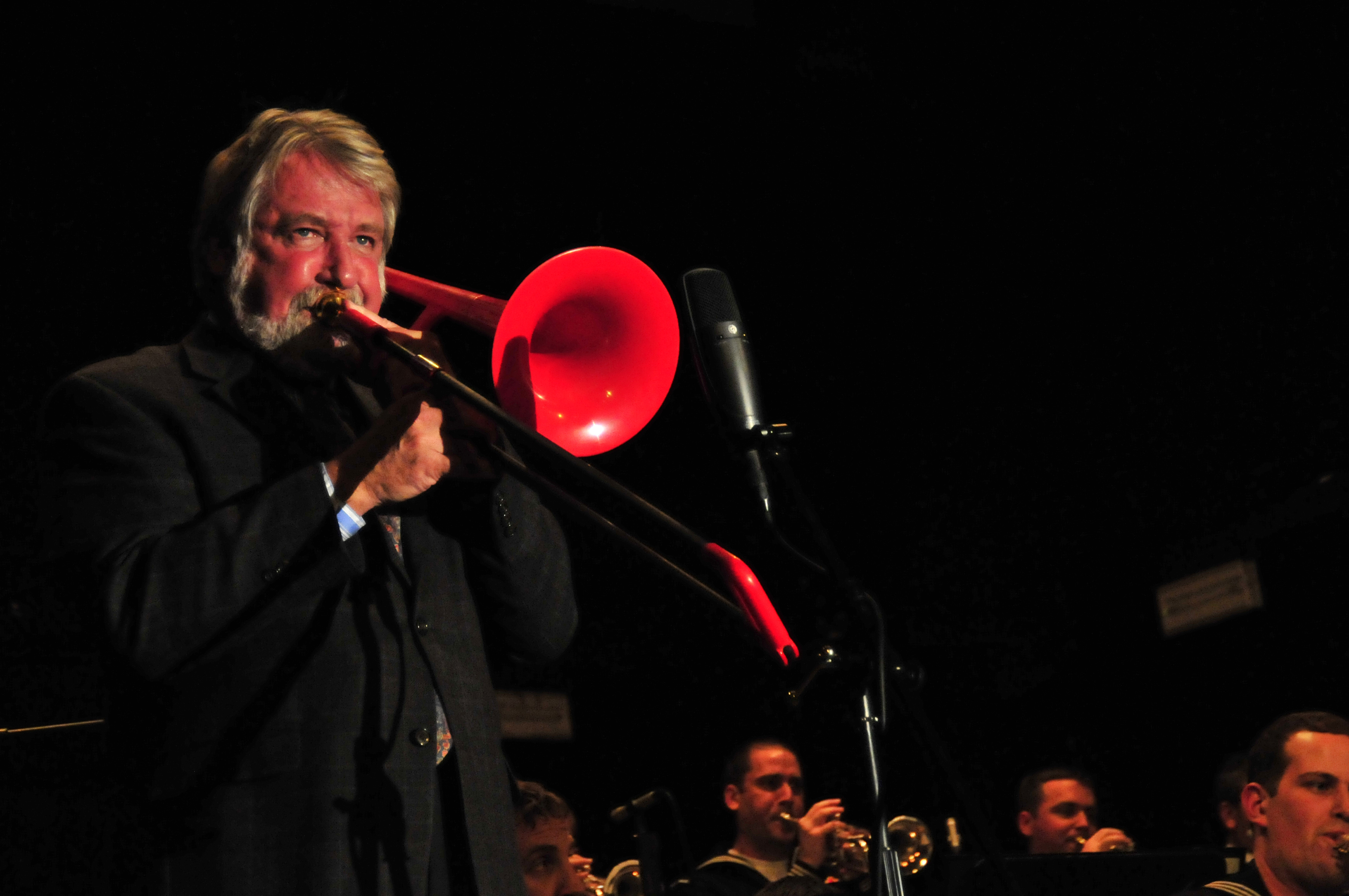 NAPLES, Italy (Jan. 12, 2011) Professor Jiggs Whigham, an internationally acclaimed jazz trombonist, composer, conductor, and educator, performs with the U.S. Naval Forces Europe Big Band, Alliance, during a free concert at Naval Support Activity Naples. The concert is part of the 2011 DODDS Europe Jazz Seminar. (U.S. Navy photo by Mass Communication Specialist 2nd Class Felicito Rustique/Released)